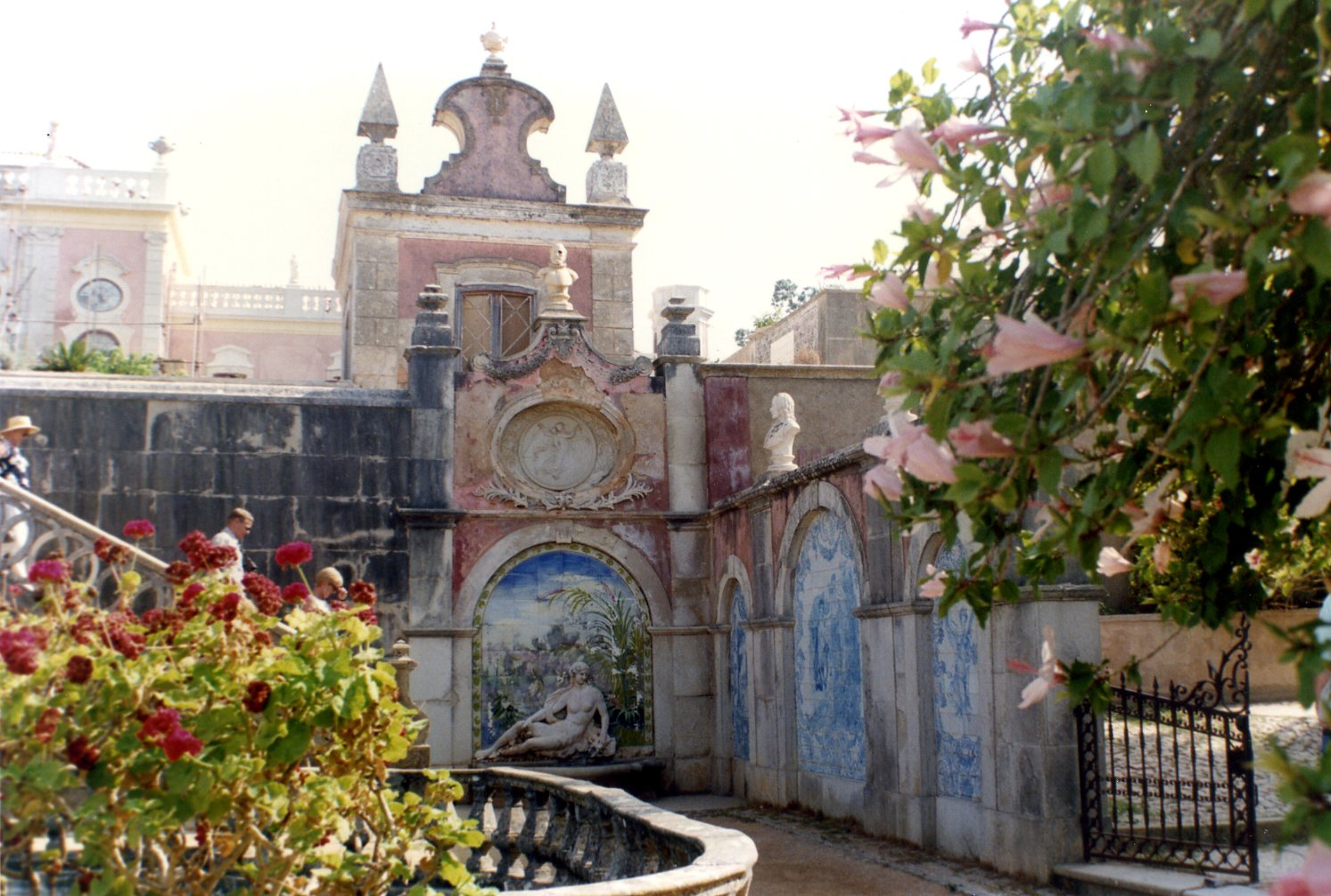 Baroque garden elements with azulejos — of the Palácio de Estoi. Located in Estoi, Faro district, Algarve region, Portugal.